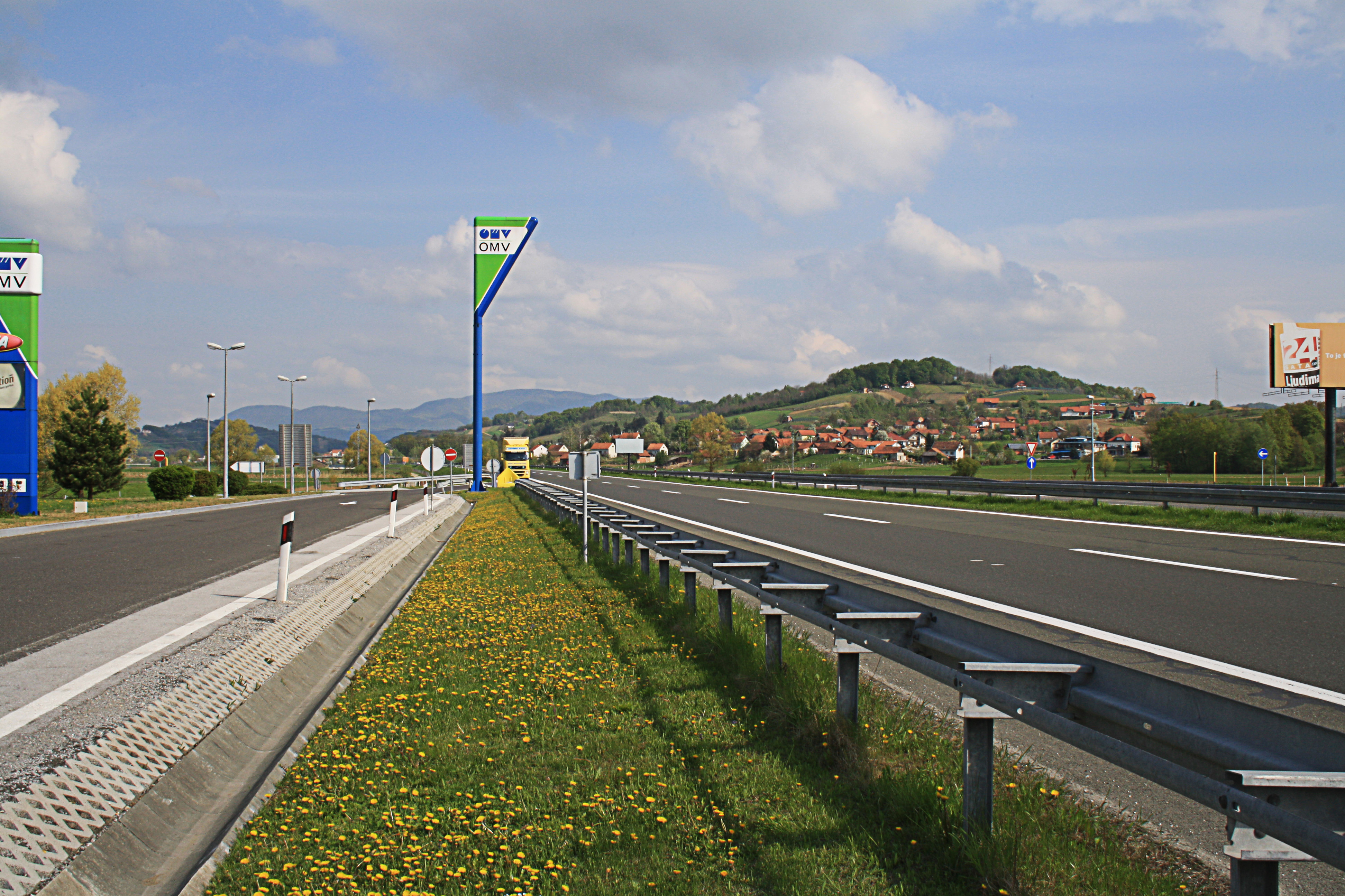 Croatian A2 motorway at Sveti Križ Začretje rest area